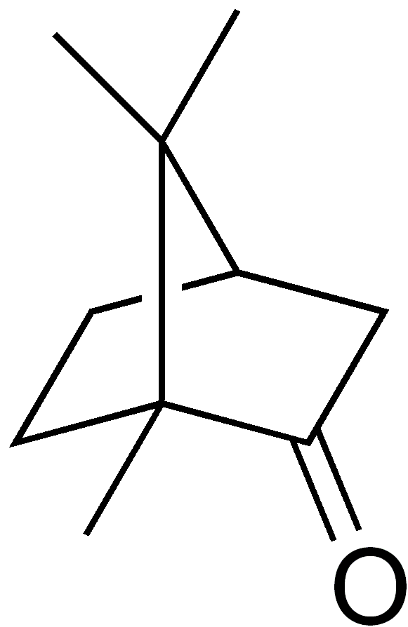 Chemical structure of camphor